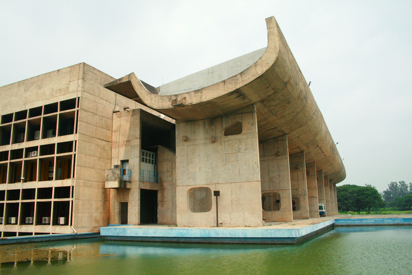 Palace of Assembly, Chandigarh. Modernist architecture by Le Corbusier (1955).